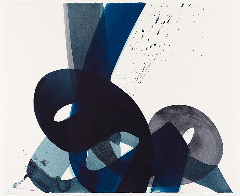 From the serie "Osmose": 80 x 95 cm, ink on paper, Aatifi 2015